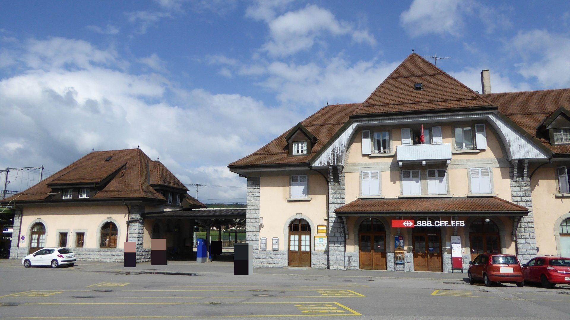 Romont railway station in Romont, Switzerland.